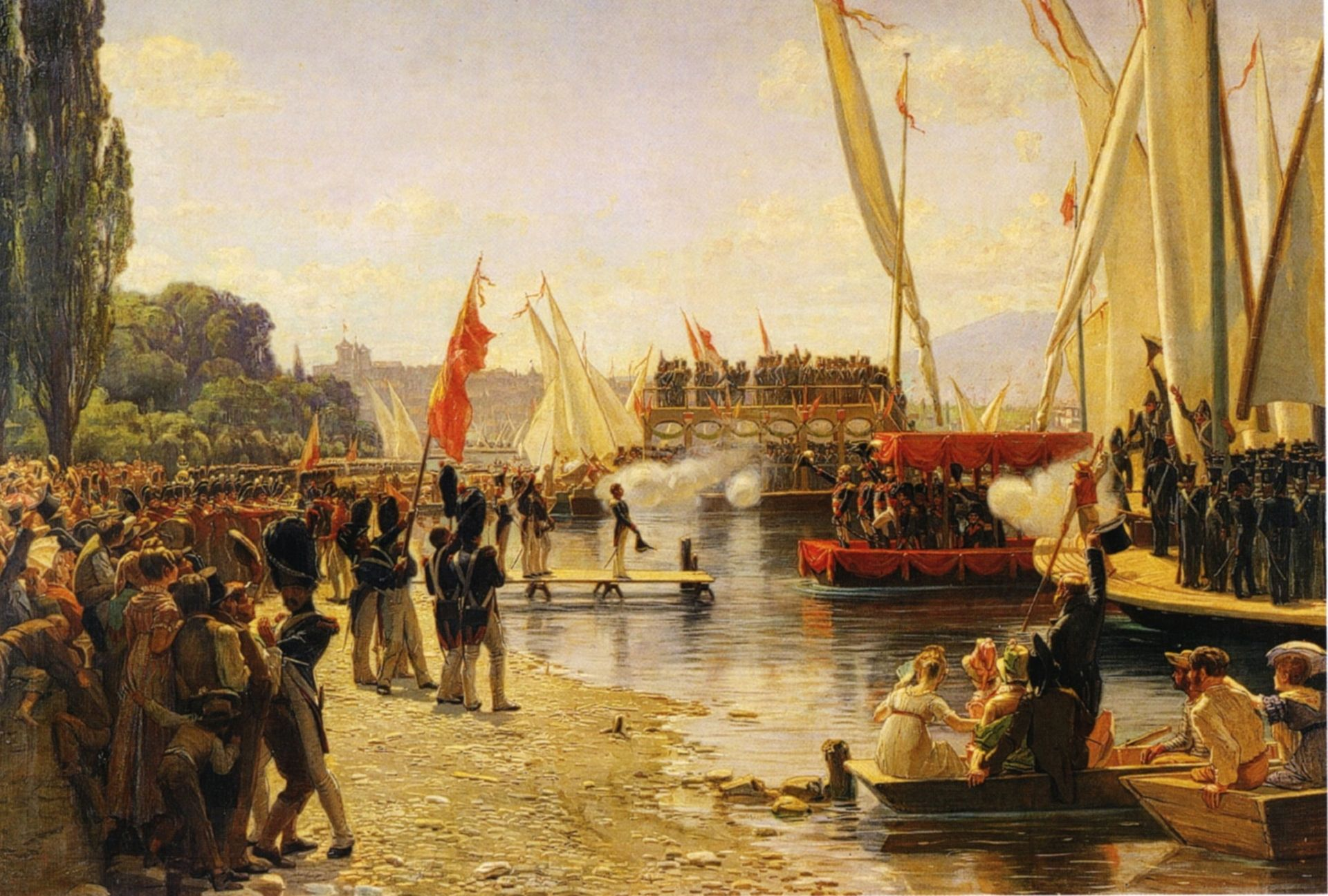 Painting from 1880 showing arrival of Swiss army in Geneva on June 1st, 1814